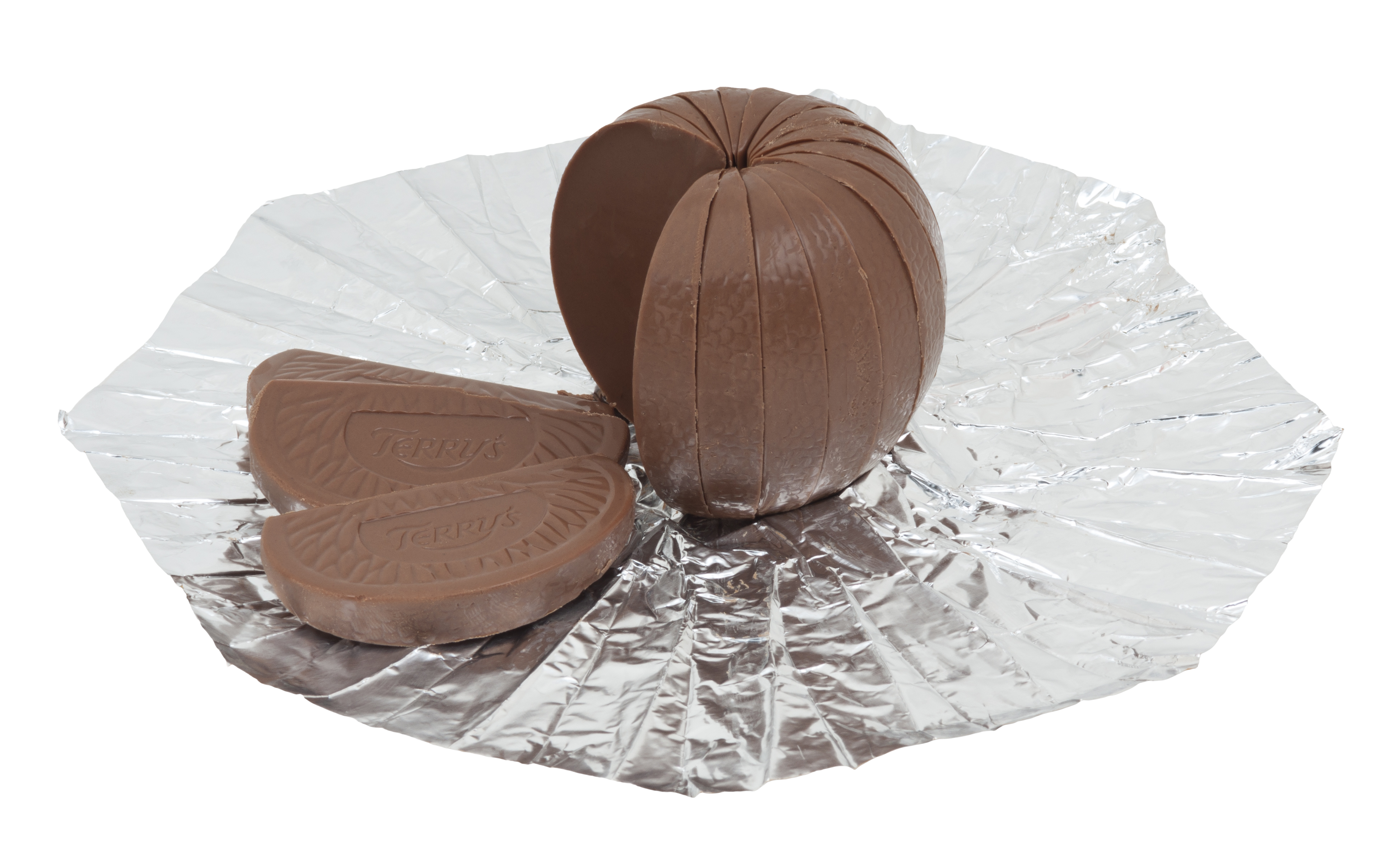 A Terry's Chocolate Orange, shown with foil wrapper and a few sections removed.